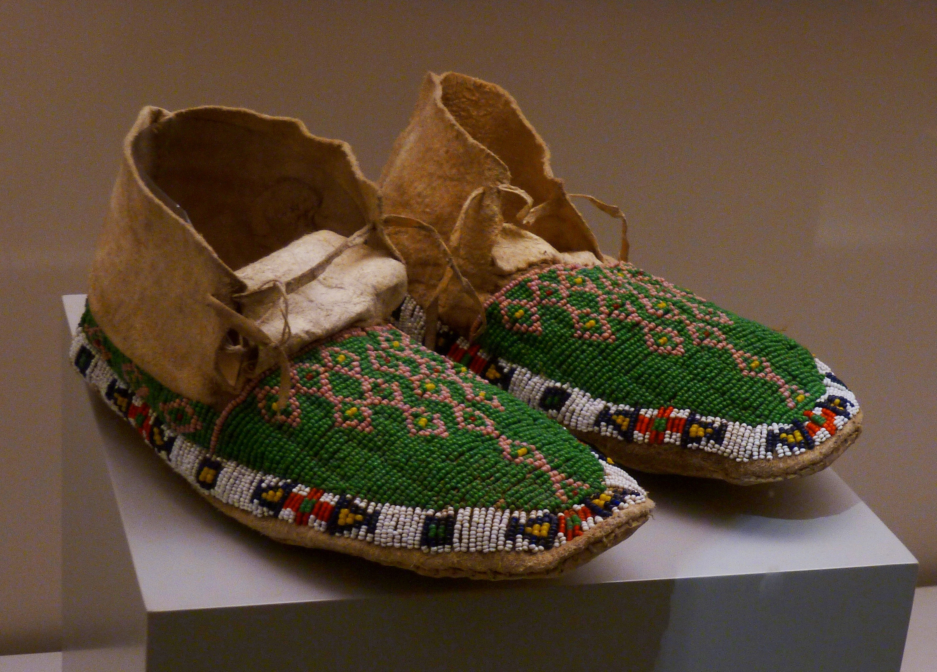 Cheyenne (or sioux) moccasins, Museum of the Americas, Madrid, Spain.